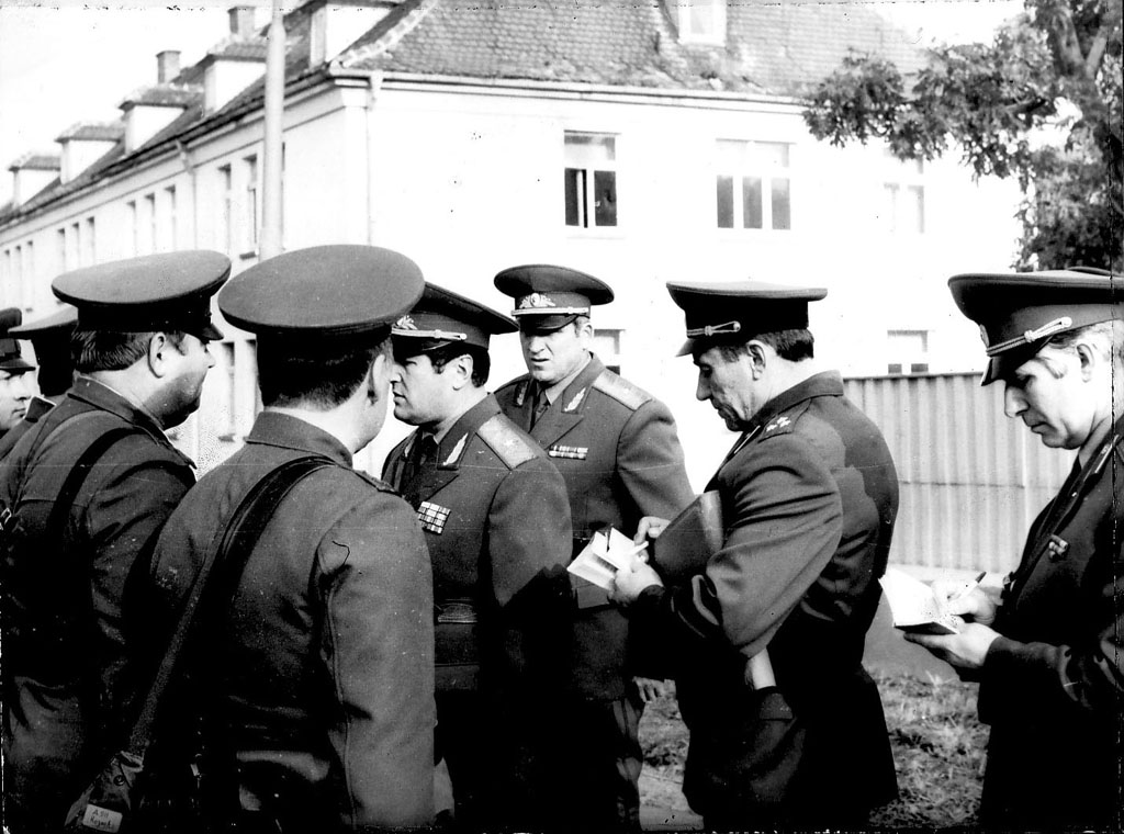 8th Guards Army commander Vladislav Achalov and 39th Guards Motor Rifle Division commander Alexander Lobanov with staff officers.